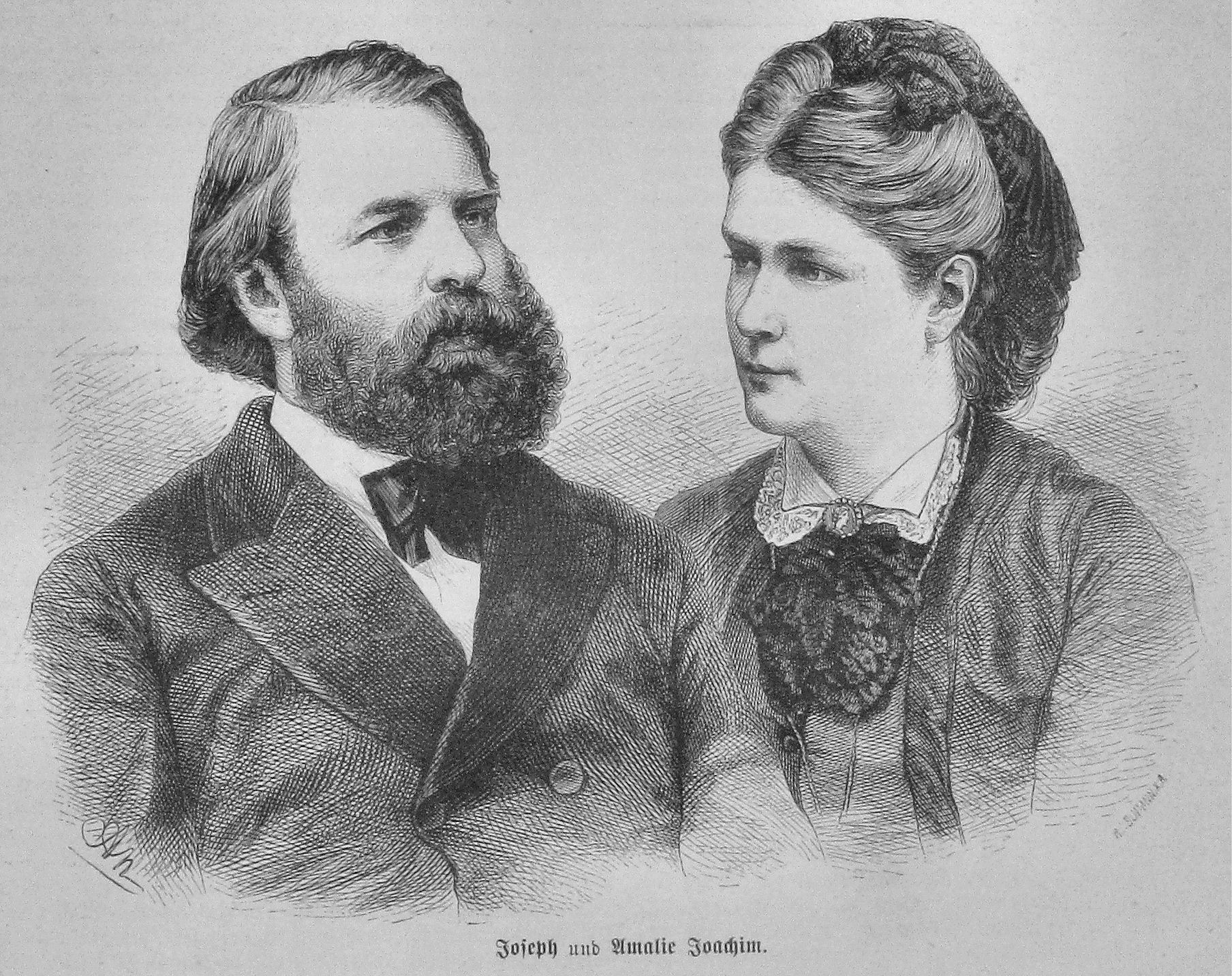 no caption